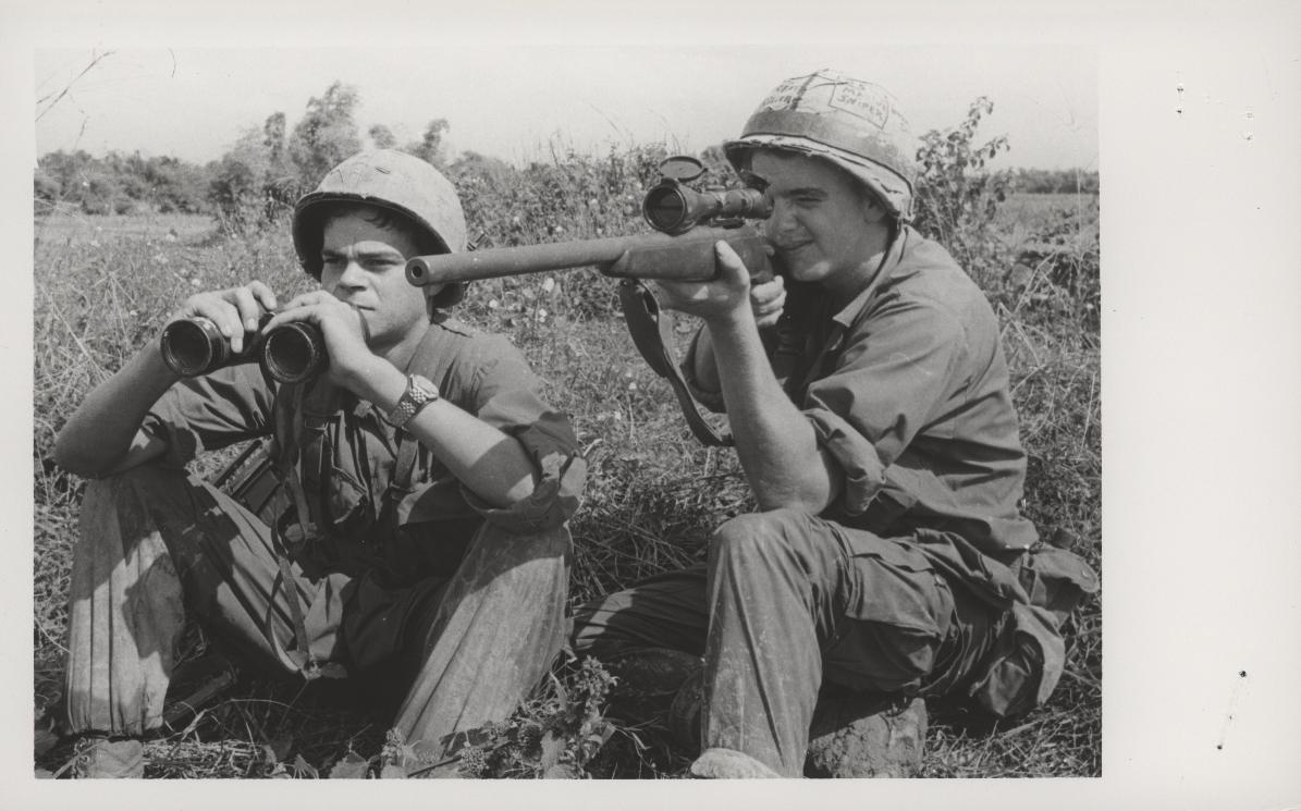 "Deadly Aim: Lance Corporal George T. Wilhite, 19 (Louisville, Kentucky) aims a 7.62mm sniper rifle as his spotter, Lance Corporal Alexander G. Levandowski, 20 (Milwaukee, Wisconsin) waits to observe the results. The Leathernecks were attached to I Company, 3d Battalion, 5th Marines [I/3/5] during Operation Auburn (official USMC photo by Sergeant W. F. Dickman)." From the Jonathan Abel Collection (COLL/3611), Marine Corps Archives & Special Collections. OFFICIAL USMC PHOTOGRAPH